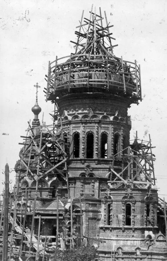 Construction of St. Sofia cathedral in Harbin